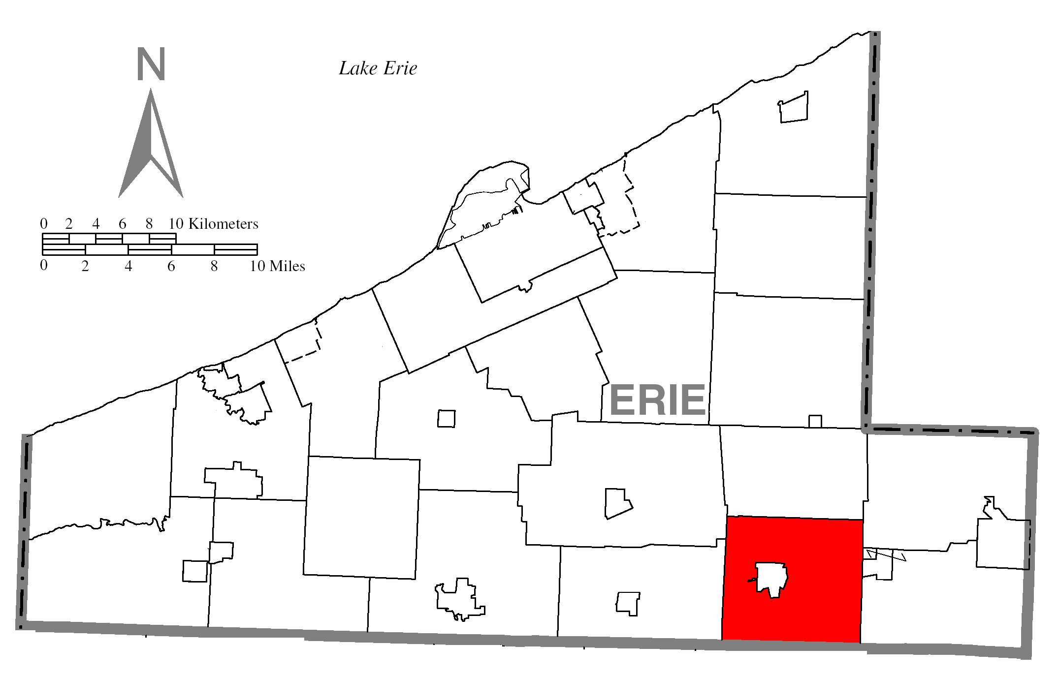 A map of Erie County showing Union Township, Pennsylvania (alternate) highlighted on the map.